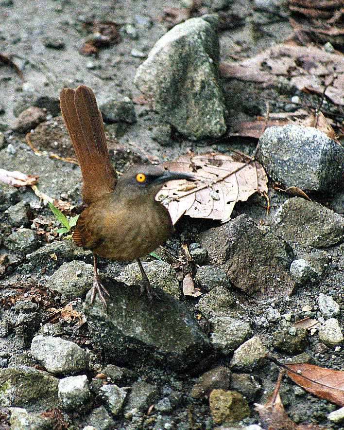 Brown Trembler, Cinclocerthia ruficauda photographed at Dominica 2001